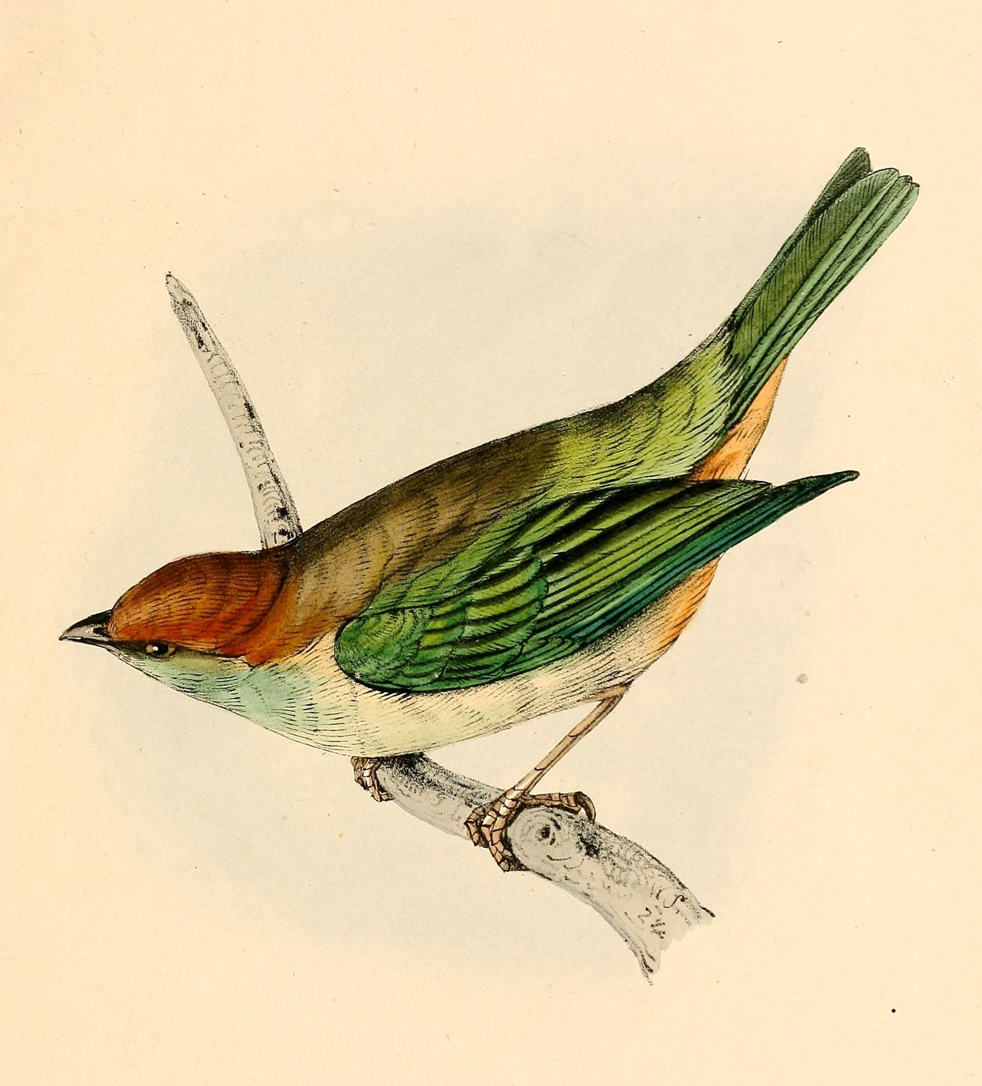 Aglaia melanotis = Tangara peruviana (Black-backed Tanager) - young